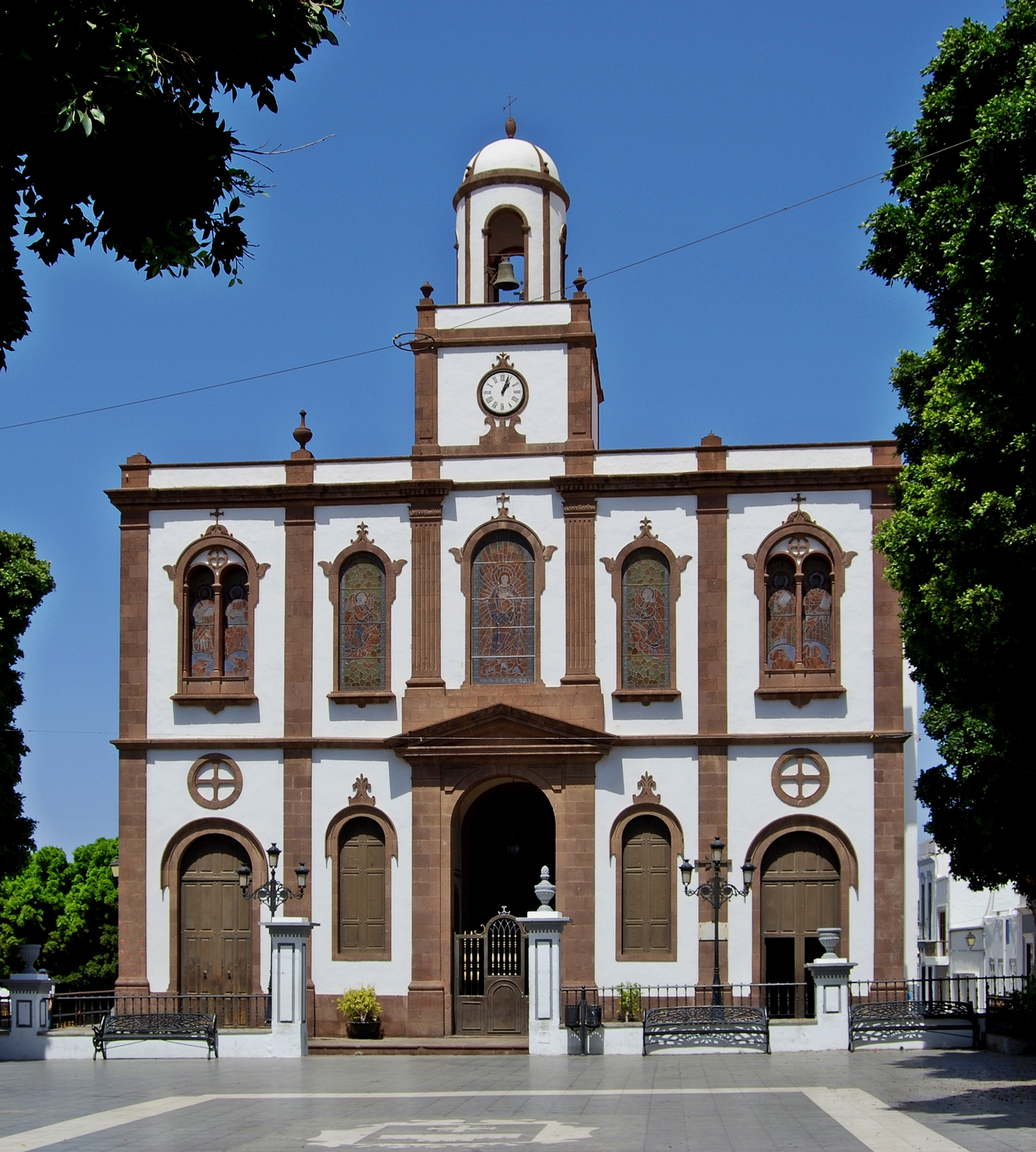 The Church Iglesia de la Concepción in Agaete, Gran Canaria. Perspective corrected with ShiftN.